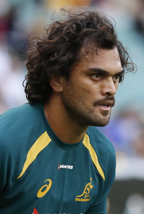 2017.06.17.14.42.49-Karmichael Hunt The 2017 mid-year rugby union international, 17 June 2017, Australia vs Scotland at Allianz Stadium, Sydney